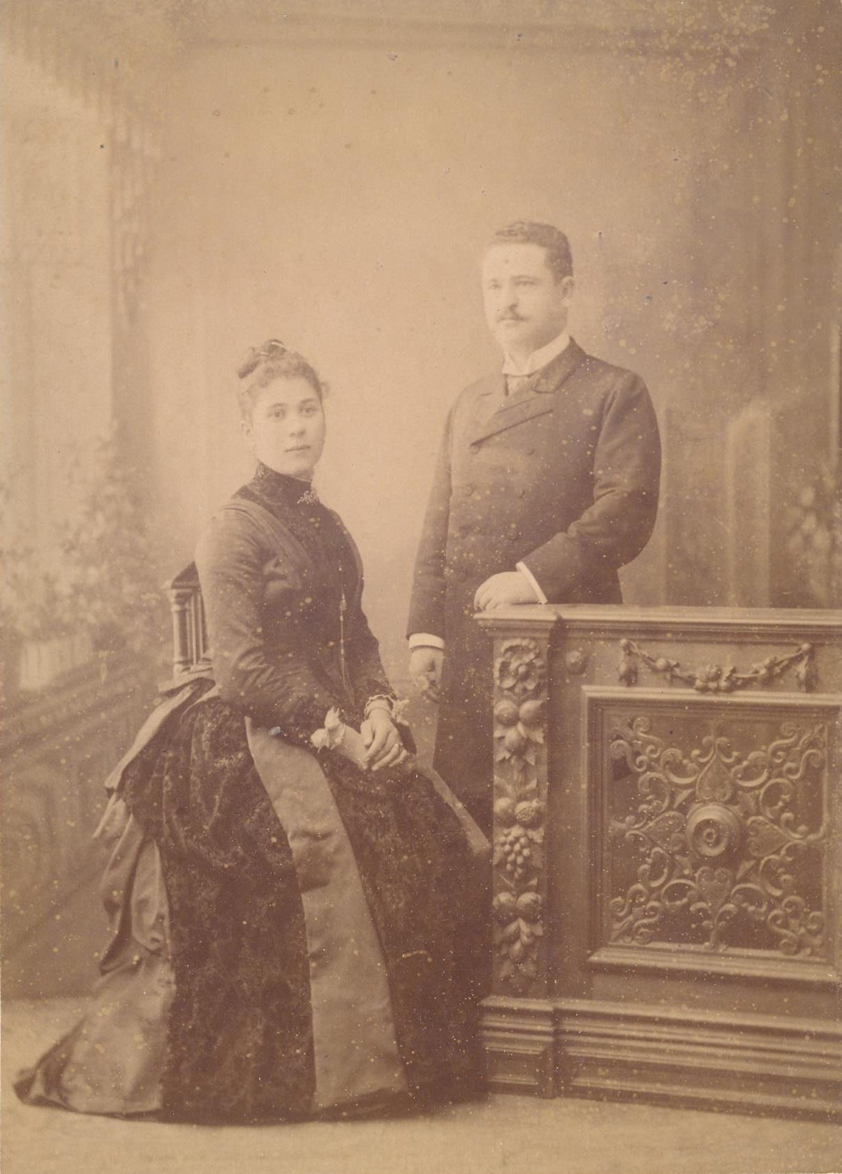 Konstantin Stoilov and Hristina Tapchileshtova, 1888